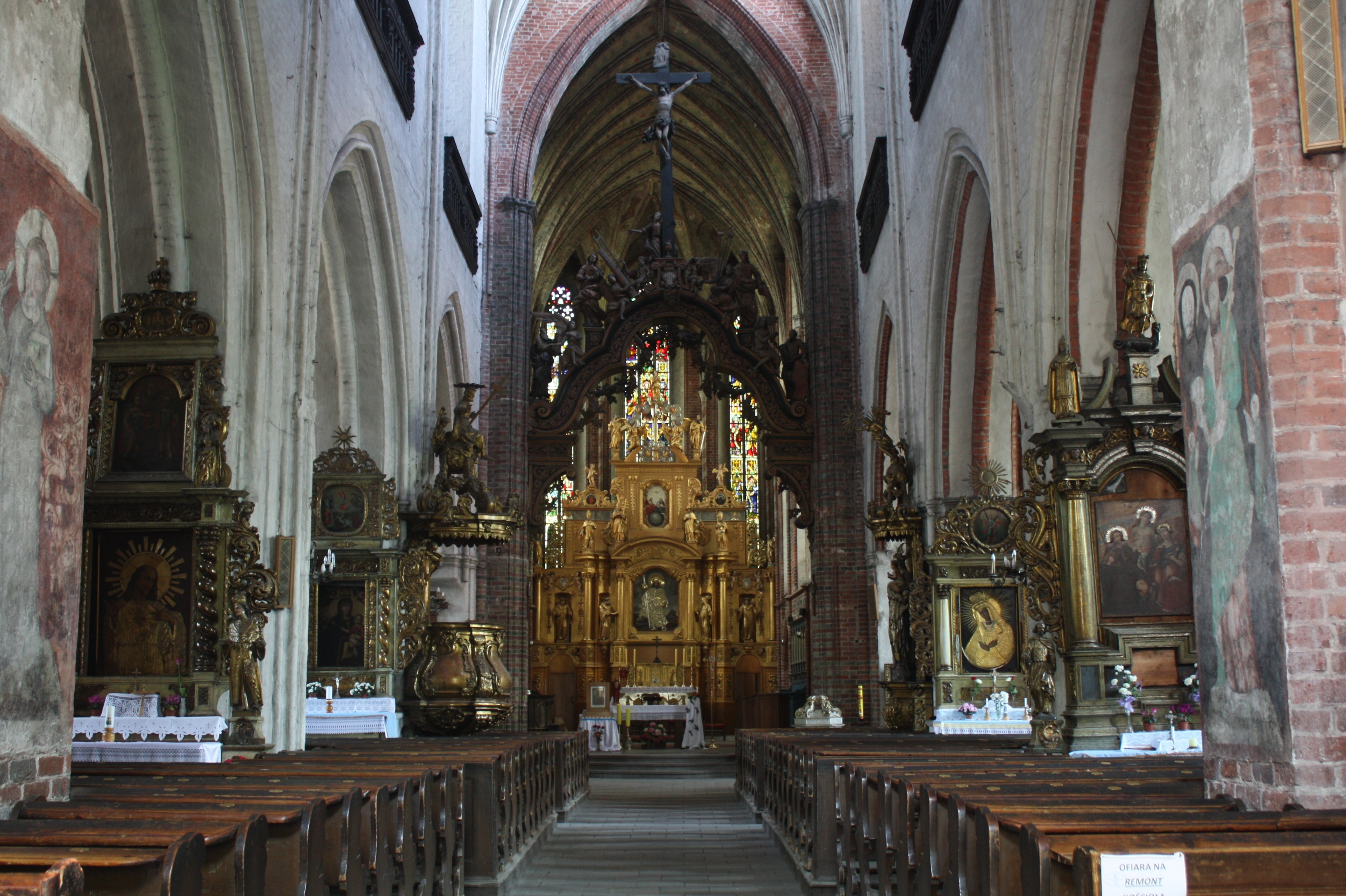 Toruń, St James Church, Interior